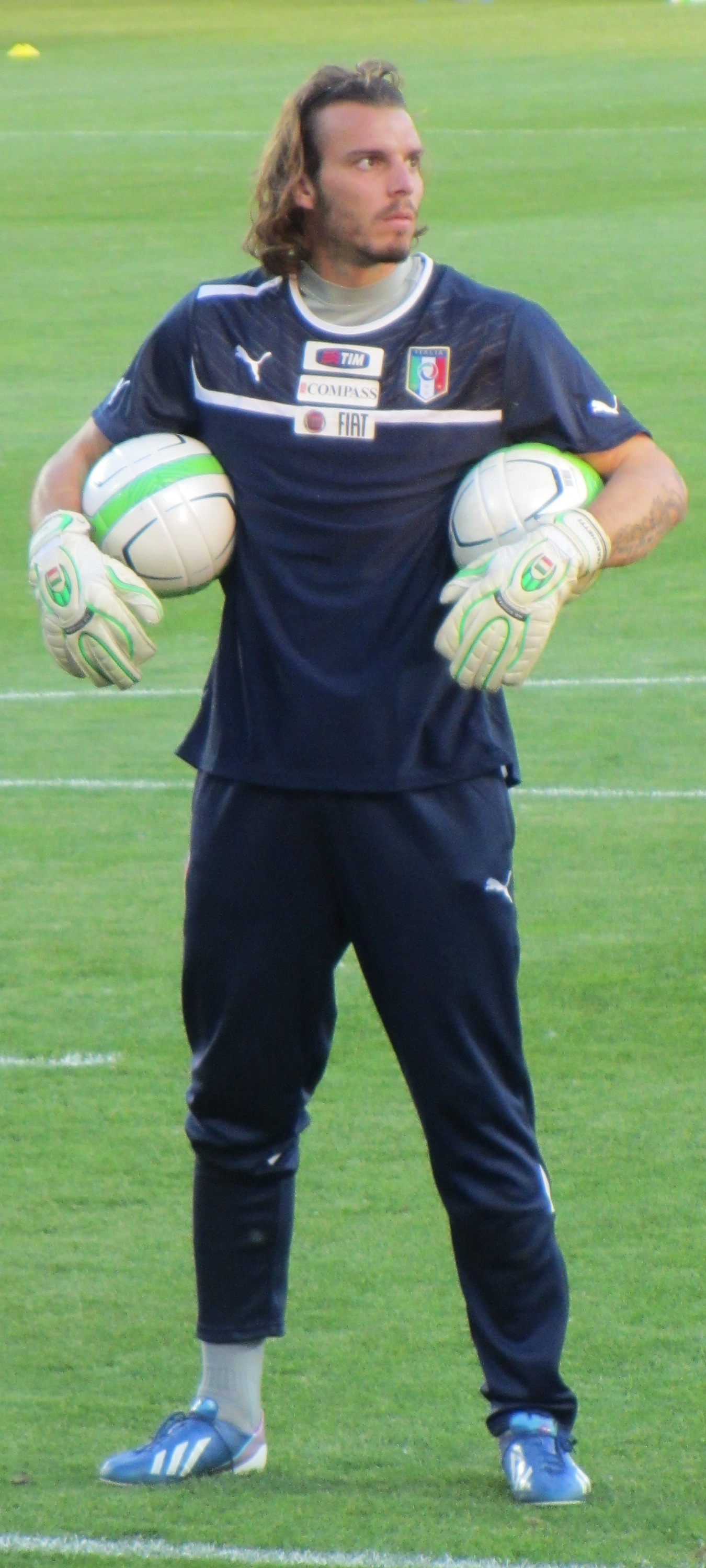 Federico Marchetti warming up with the Italy national football team before a WC 2014 qualifying match against the Czech Republic